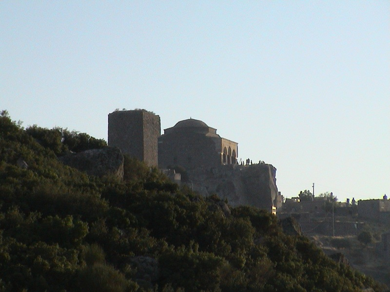 Mosque of Asso (Behramkale), Turkey.